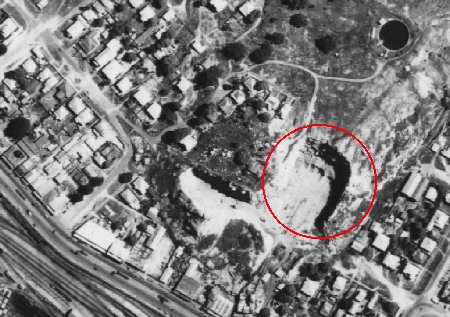 Aerial photograph of Castle Hill, Queensland. 1952 photograph of the quarry where the Sturt Street cutting now exists.